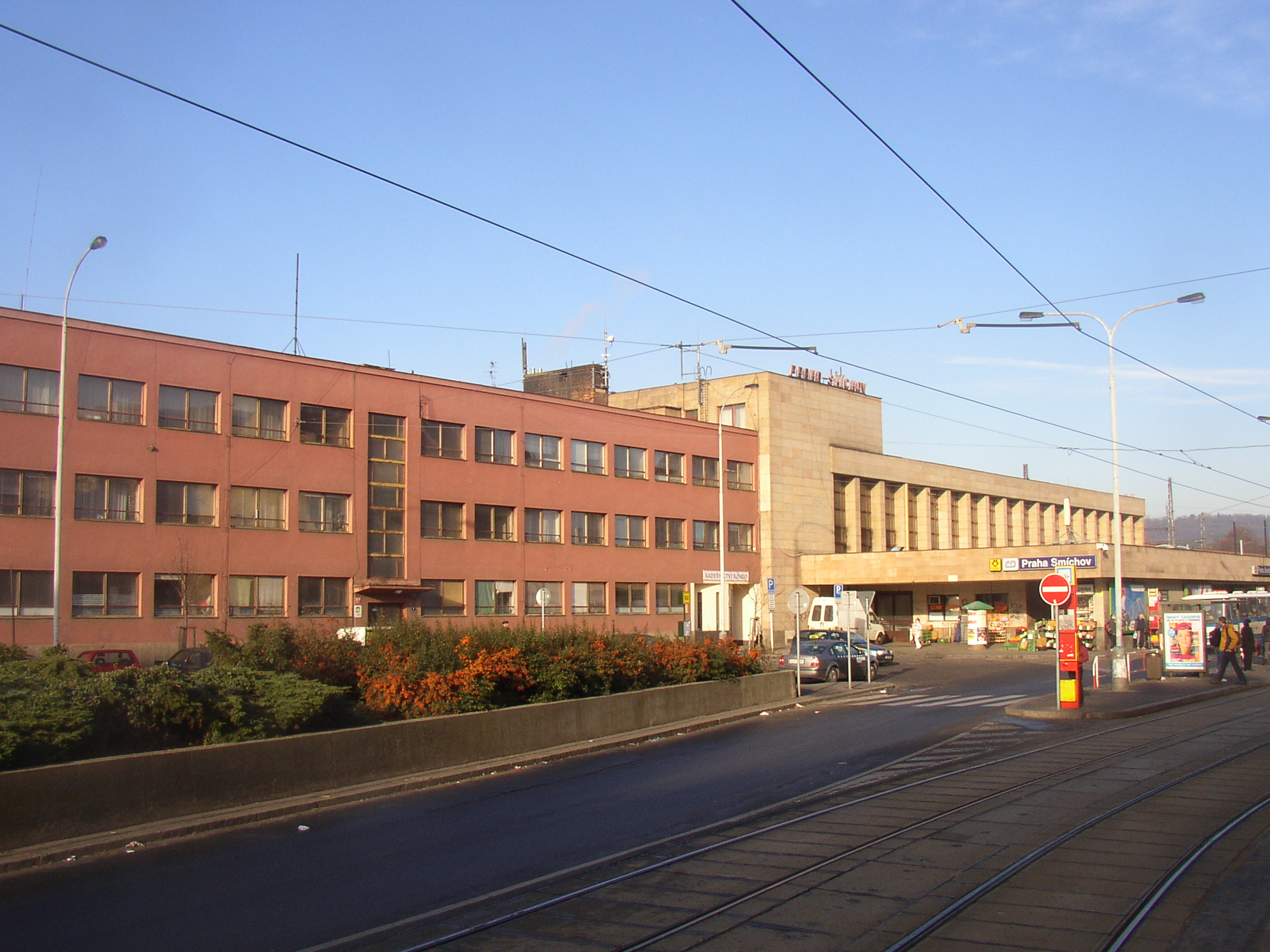 Praha-Smíchov railway station, Prague, Czech Republic.